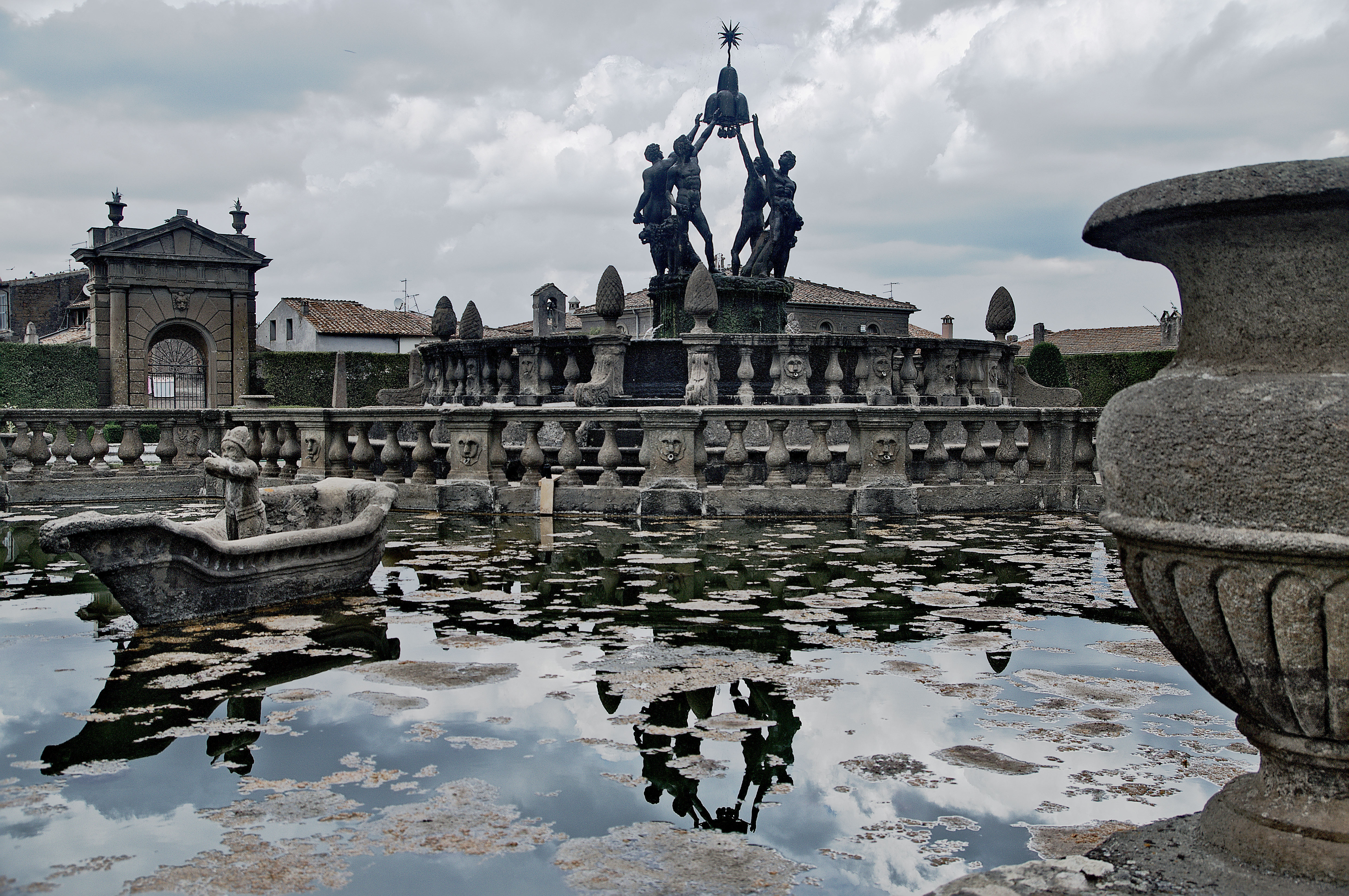 [Villa Lante (Bagnaia)] , Viterbo VT, Italy Villa Lante (Bagnaia), siepi di bosso, fontane, giardini sculture, Rinascimento, architettura, pittura prospettiva, voliera photo Paolo Villa VR 2016 copyright